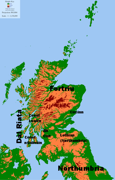 Author: SFC9394 (talk contribs). CCSA-2.5 licensed. Modified by uploader.